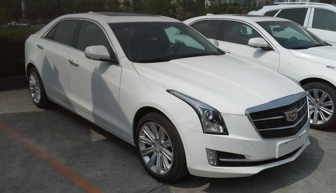 Cadillac ATS-L photographed in Chongqing, China.